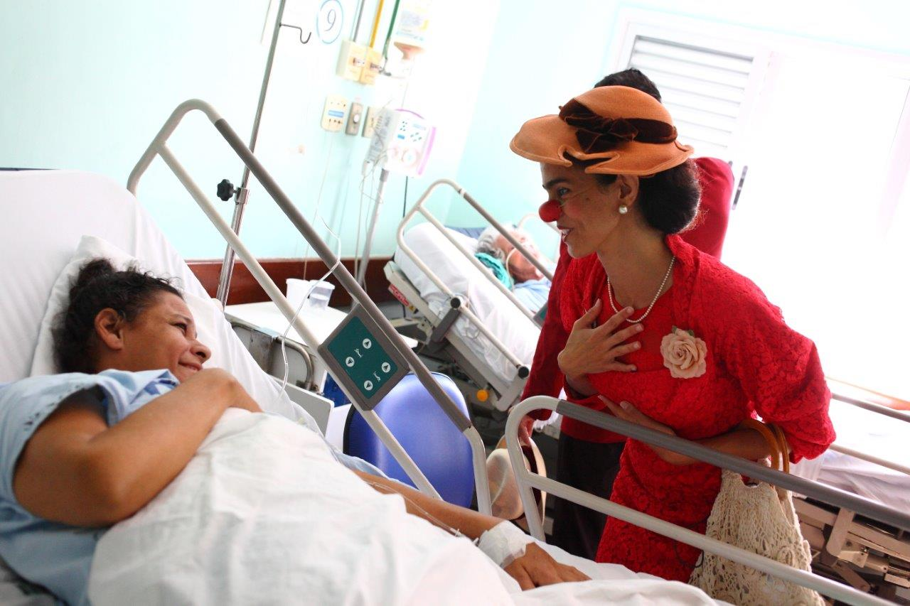 Therapeutic clowning with people with dementia